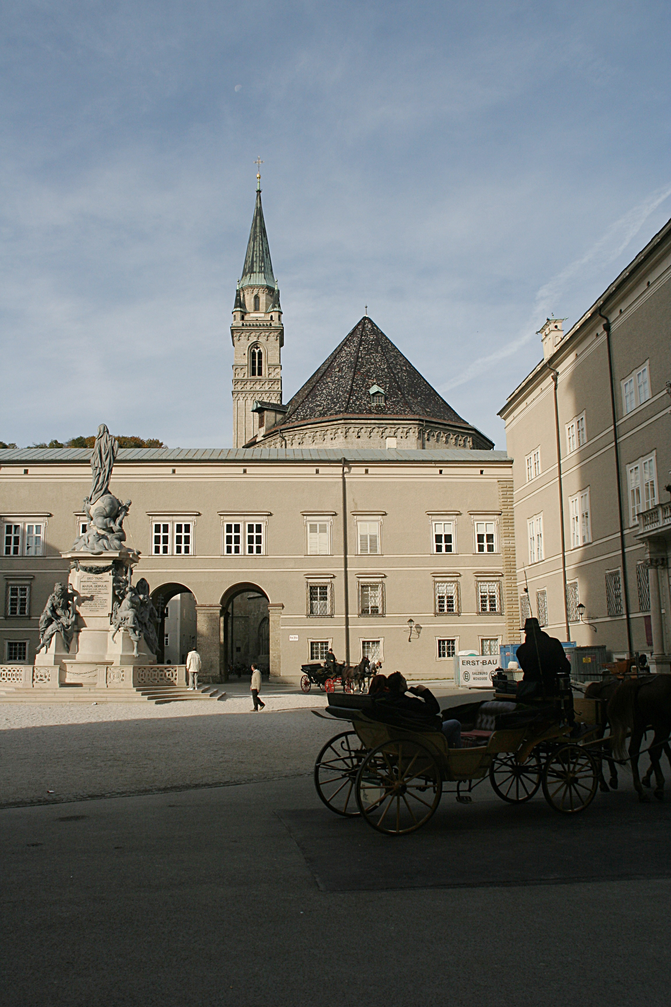 Salzburg. Franziskanerkirche view from back (From the cathedral)